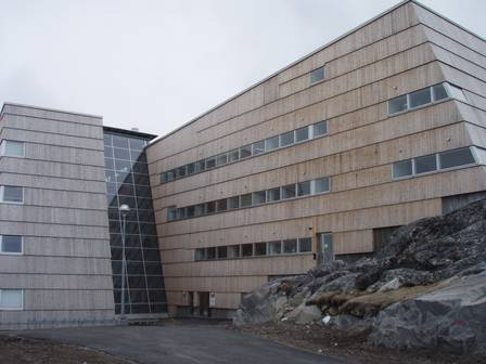 The location of the institutions inside "Ilimmarfik"